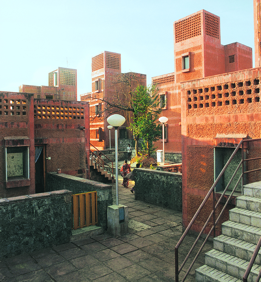 Division of housing units